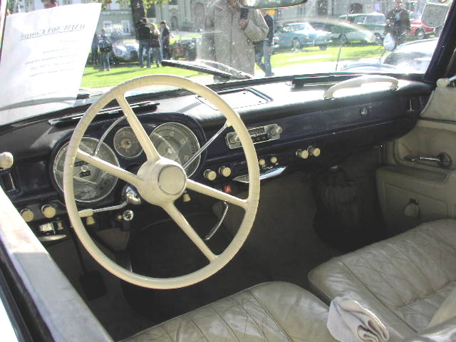 BMW 503 Coupé Dashboard